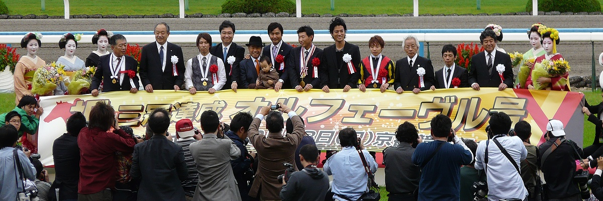 72nd_Kikka-sho_20111023(2)